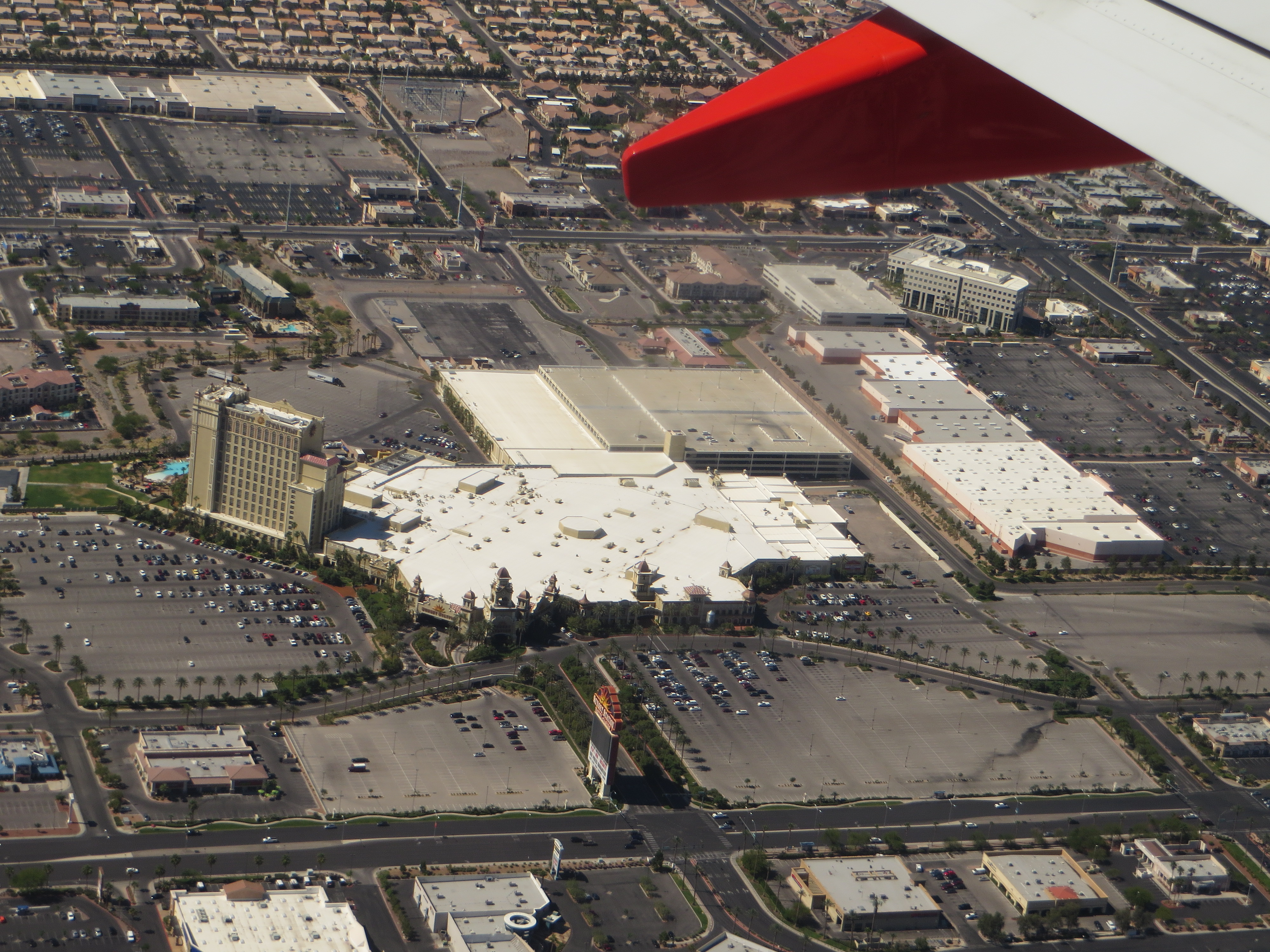 Sunset Station is a hotel and casino. It is owned and operated by Station Casinos on 98 acres (40 ha) located in Henderson, Nevada. Sunset Station is an off-strip locals casino located on Sunset Road near Interstate 515, across from the Galleria at Sunset shopping center. The resort includes a 21-story hotel tower with 448 rooms, 13,000 sq ft (1,200 m2) of meeting space, slot machines, table games, a 13-screen movie theater, a 542-seat bingo hall, a 72-lane bowling alley open 24 hours a day, a 5,000-seat outdoor amphitheater, and nine restaurants.